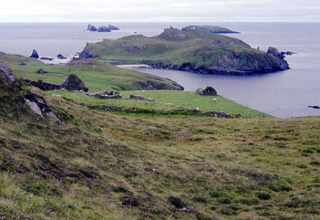 Fethaland